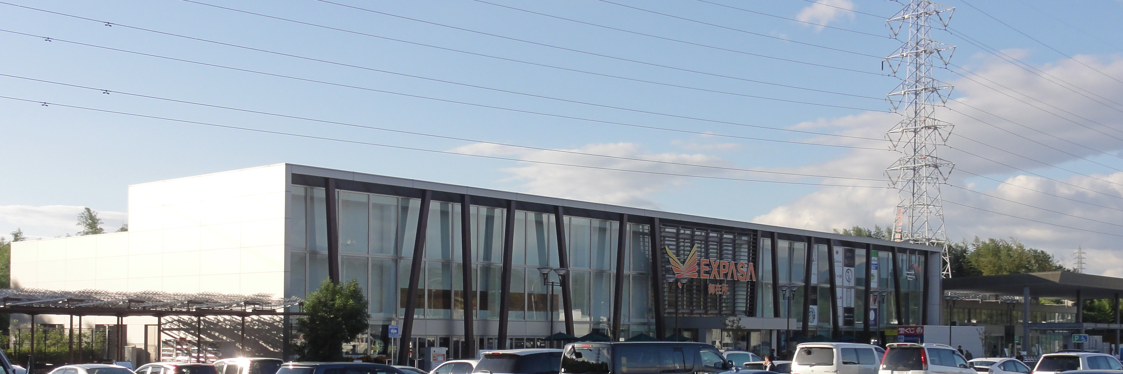 EXPASA Gozaisho on the Higashi-Meihan Expressway southbound line in Yokkaichi City, Mie Prefecture, Japan